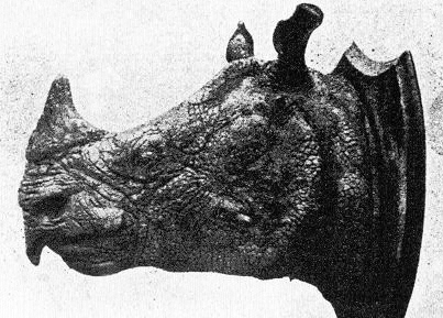 Head of a male Javan rhino (Rhinoceros sondaicus annamiticus) shot in Perak on the Malay Peninsula. Preserved in the Raffles Museum, Singapore. From Sody 1941, fig. 17, first published in Indonesia.